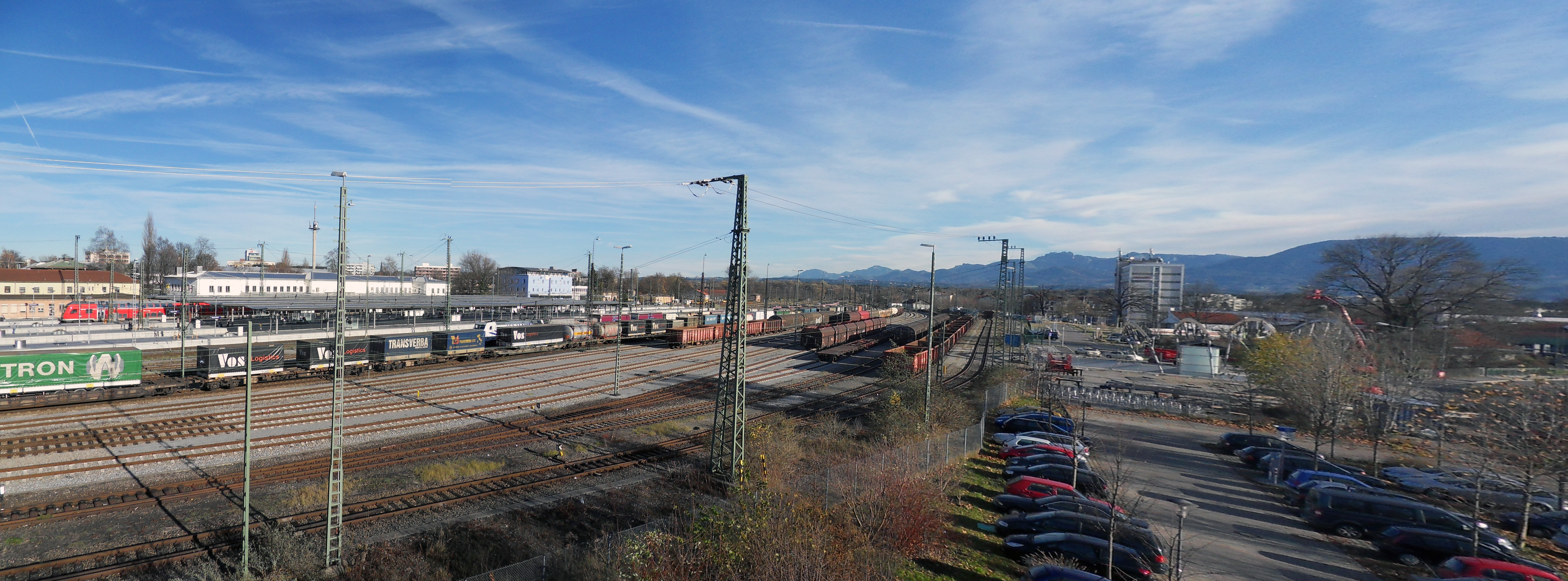 Trainstation Rosenheim